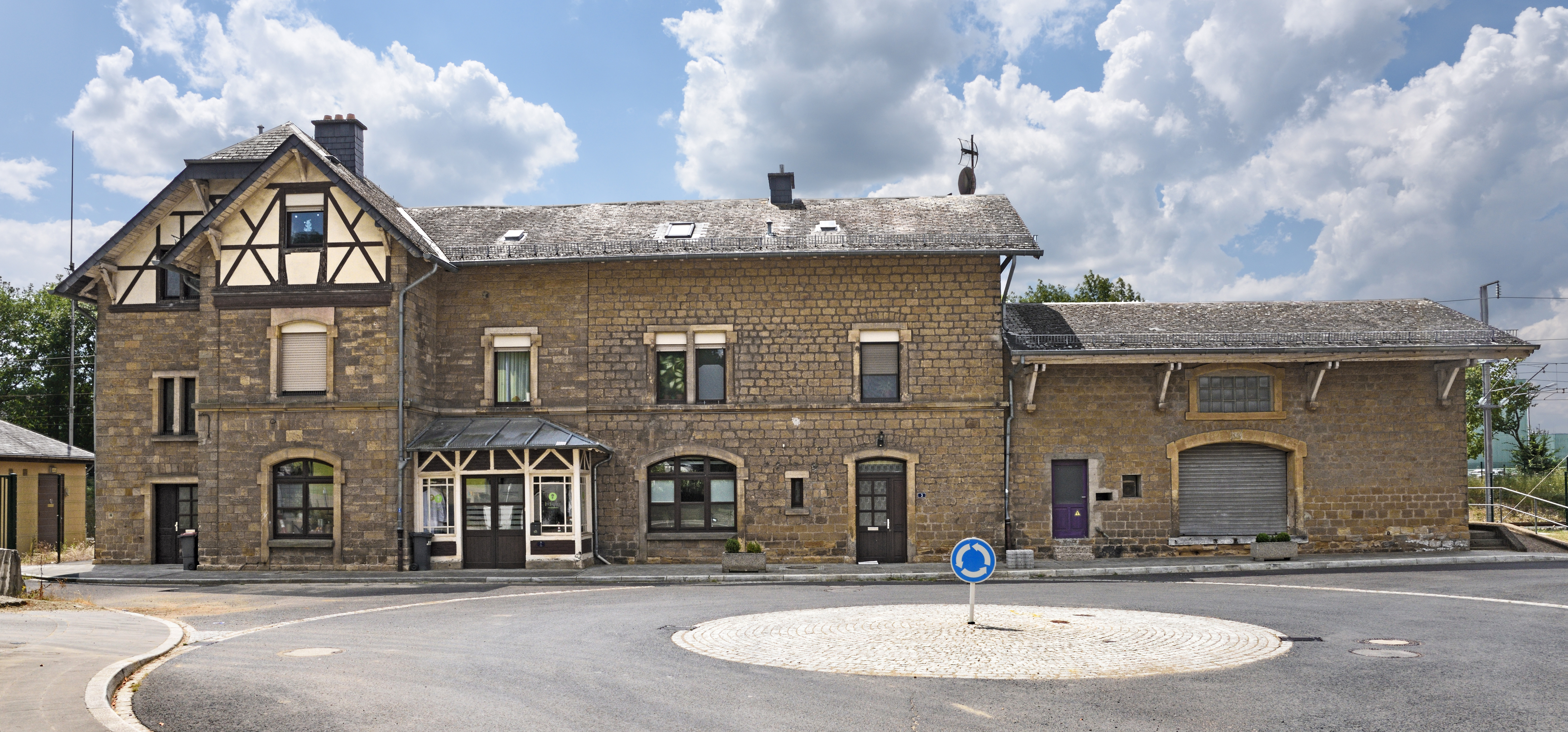 Former railway station at Sandweiler-Gare in the municipality of Hesperange in Luxembourg. The building houses the TV studio of Mister Science (Joseph Rodesch) who presents the television series with the same name on RTL Télé Lëtzebuerg, a series financed by FNR (Fond national de la recherche scientifique, Luxembourg National Research Fund).